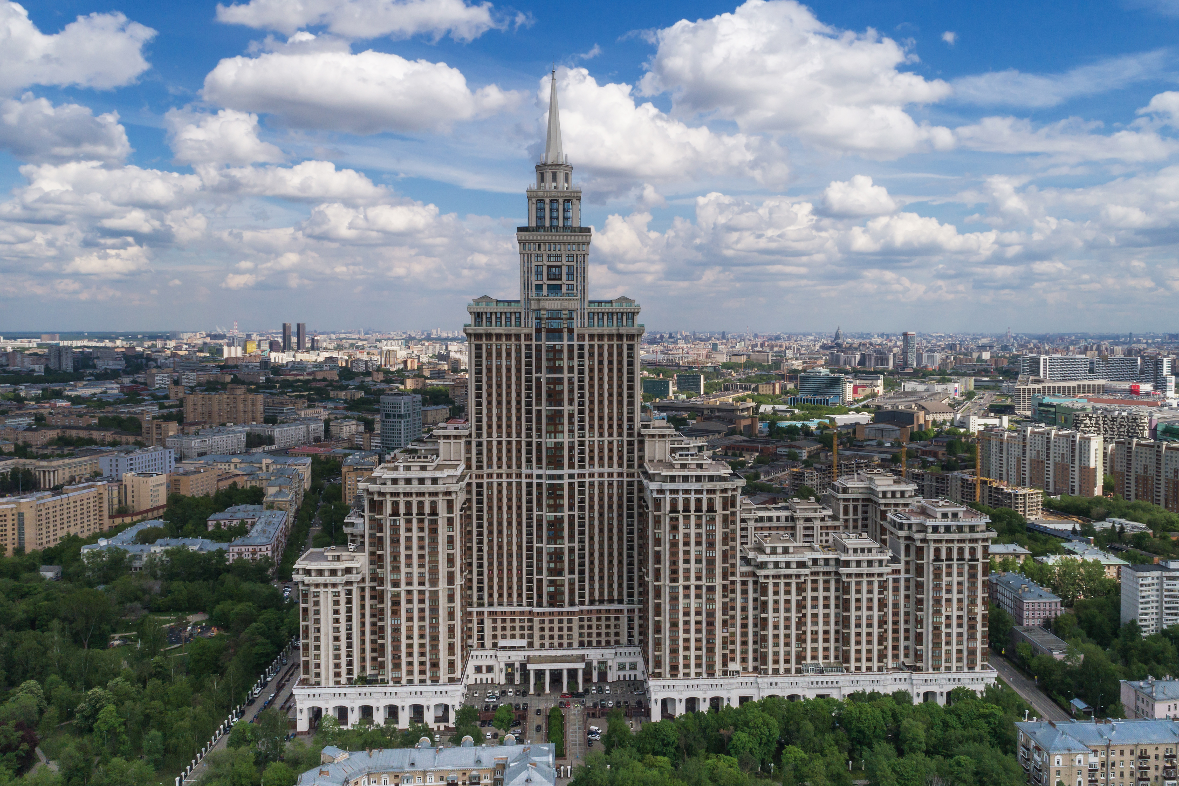 Aerial photo of Triumph Palace in Moscow (Russia).